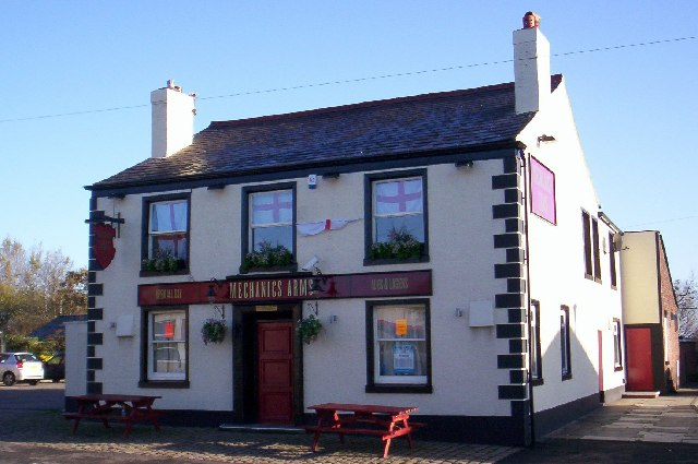 The Mechanics Arms, Hindley Green.